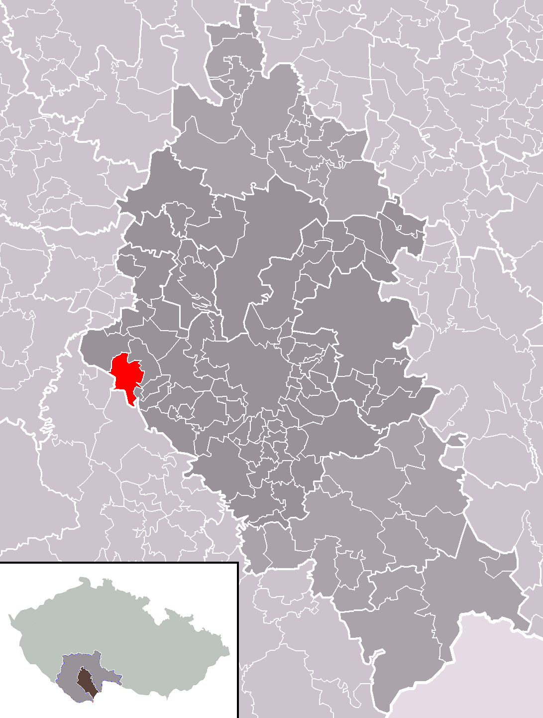 Location of Jankov municipality within České Budějovice District and administrative area of České Budějovice as a Municipality with Extended Competence.